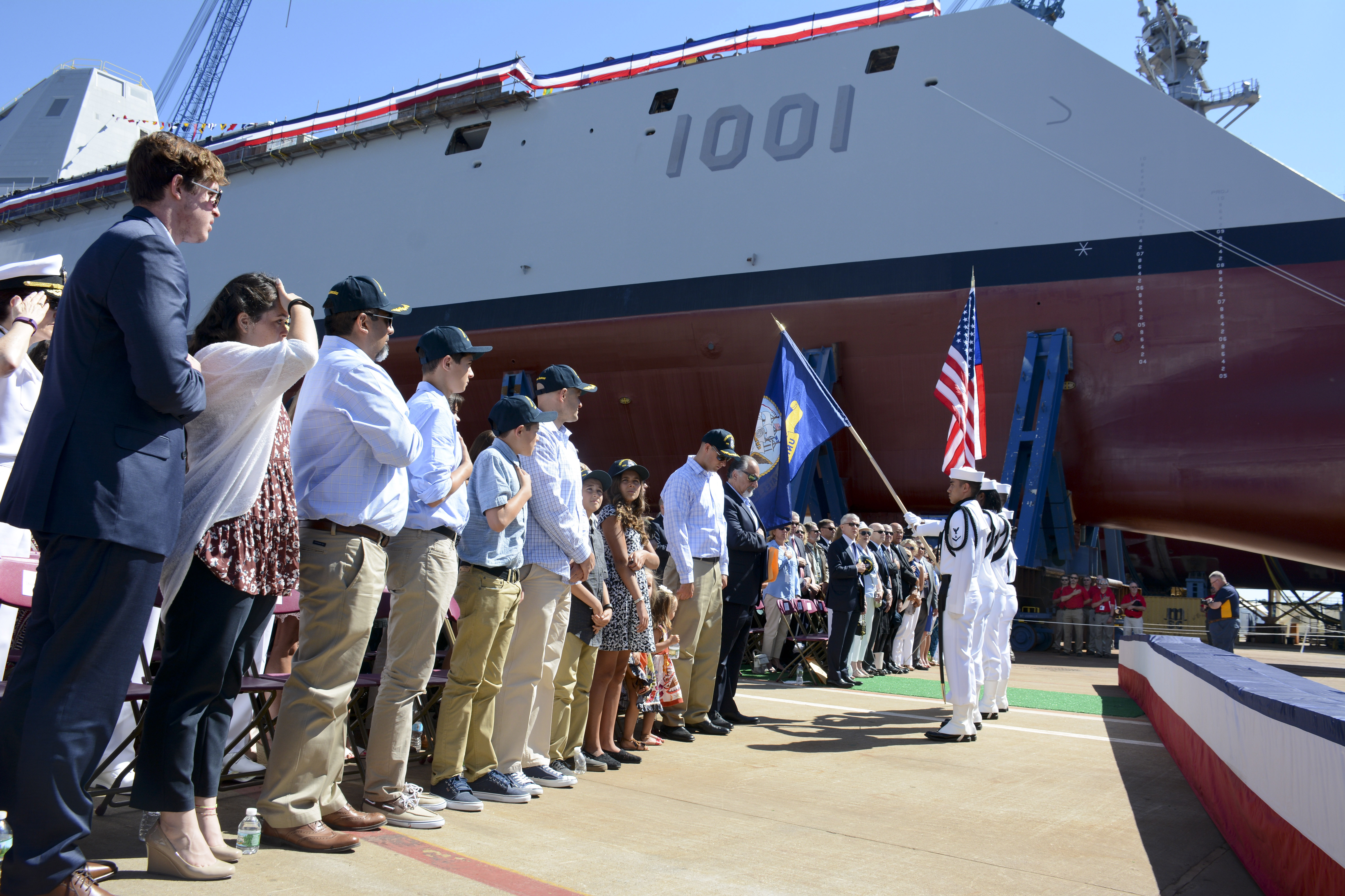 U.S. Navy crewmembers assigned to the sailing frigate USS Constitution perform a colour guard detail at the christening ceremony for guided-missile destroyer USS Michael Monsoor (DDG-1001) in the General Dynamics Bath Iron Works shipyard. USS Michael Monsoor was to be the second of two Zumwalt-class destroyers in the U.S. Navy fleet.